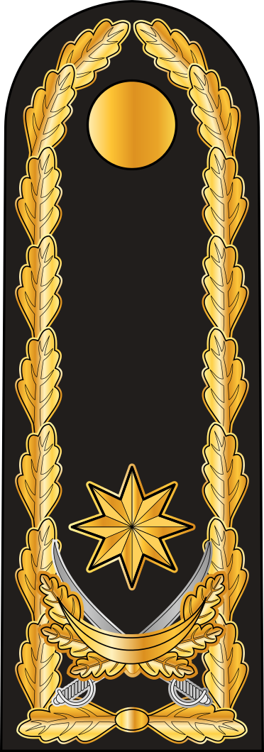 Rear Admiral of Azerbaijan's Navy